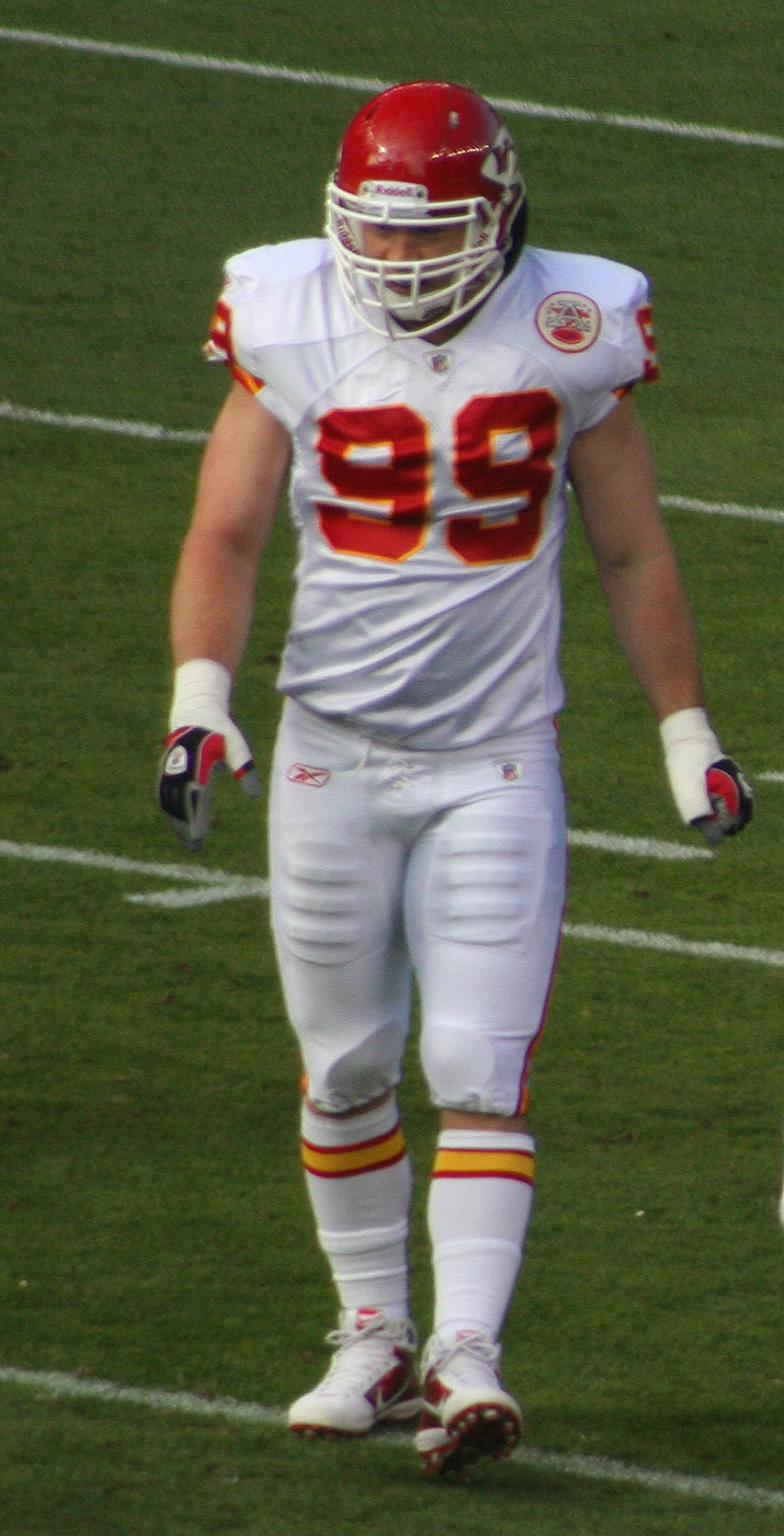 Mark Simoneau, a former National Football League player.